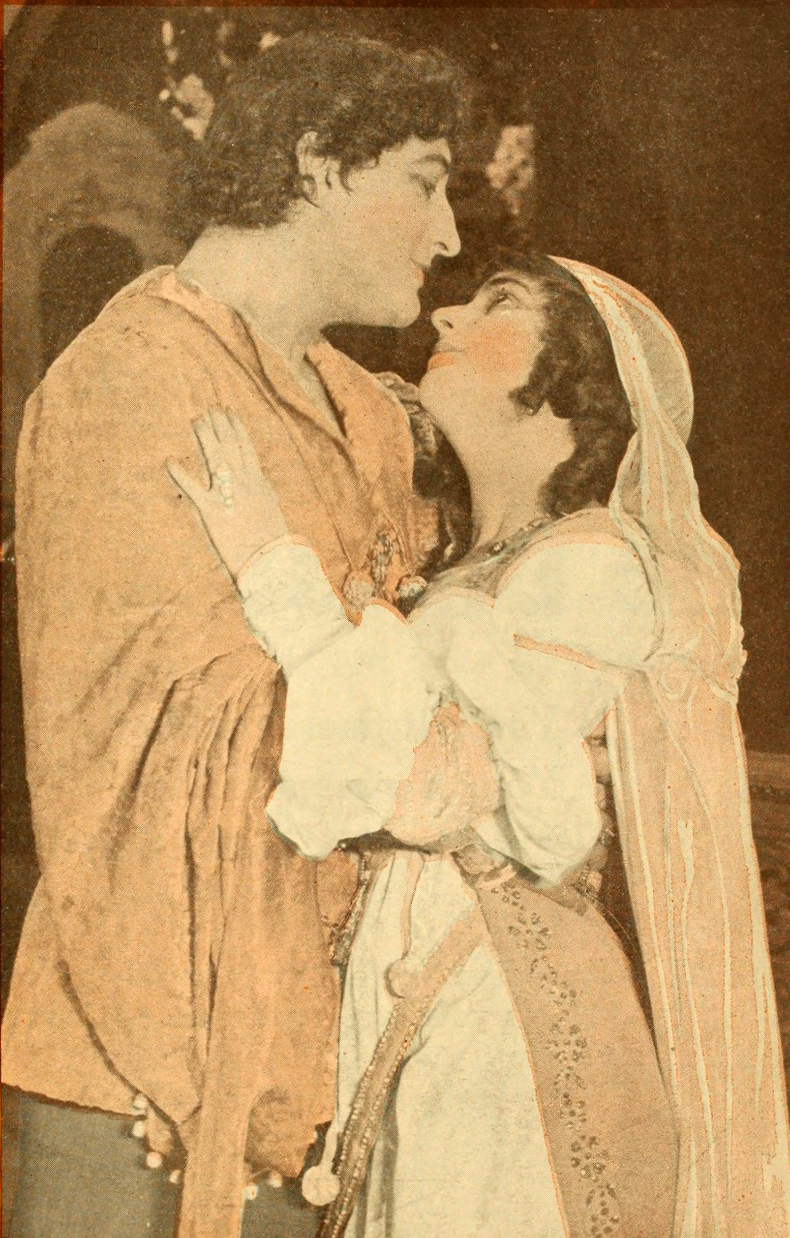 Advertisement in The Moving Picture World for the Metro Pictures film Romeo and Juliet (1916) starring Francis X. Bushman and Beverly Bayne. This is not to be confused with a second film released that year by Fox Films starring Theda Bara.